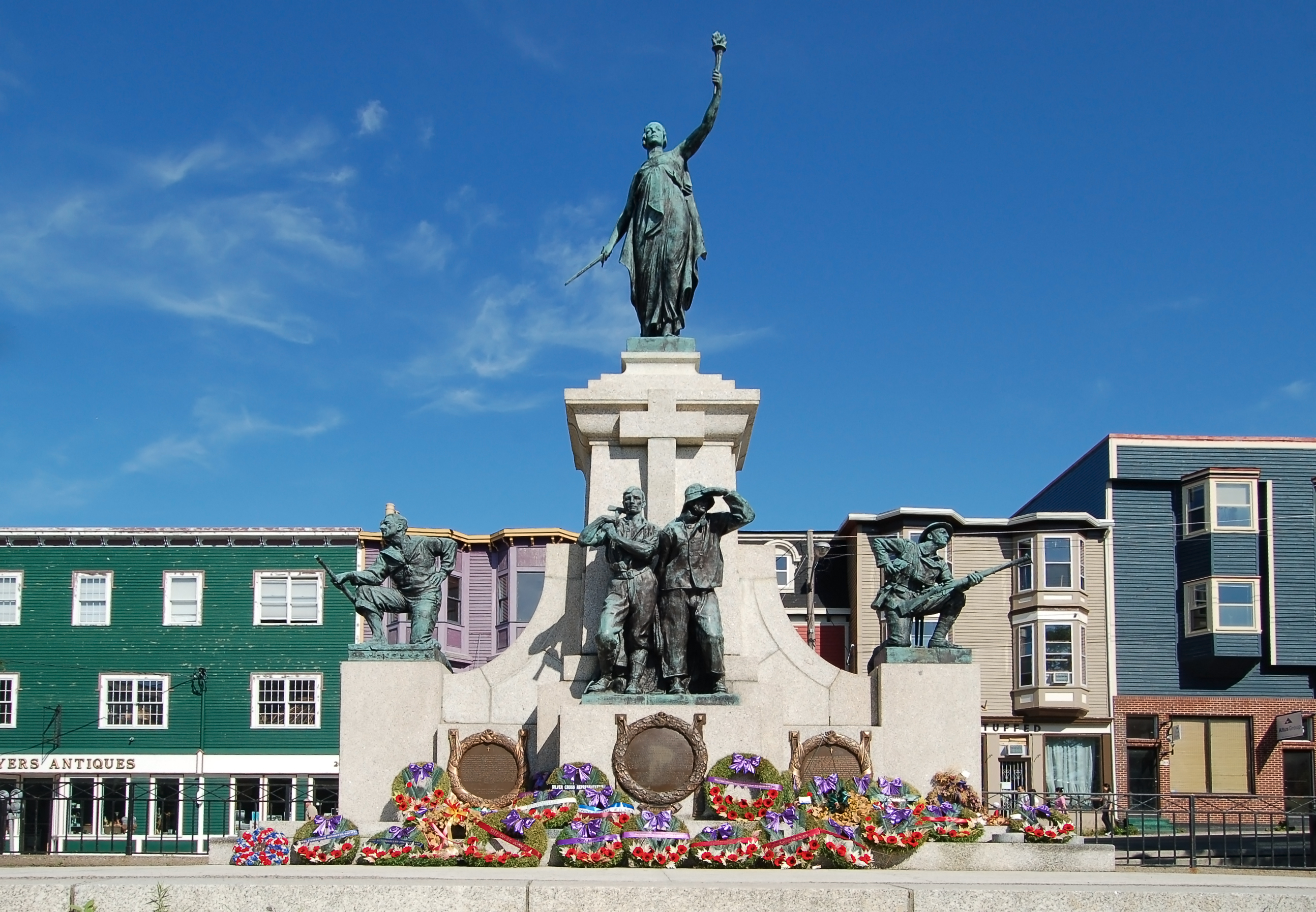 The National War Memorial in St. John's, Newfoundland. The wreathes were laid on Memorial Day, about 3 weeks before.